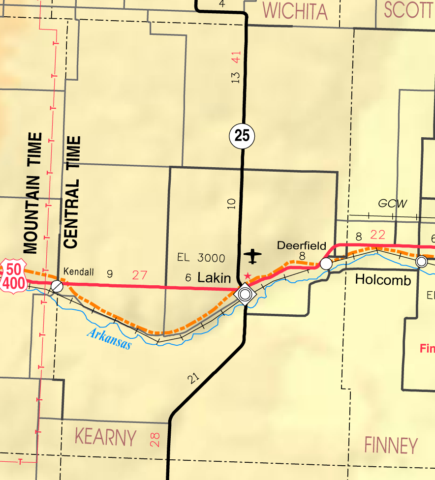 This map of Kearny County, Kansas, USA, is copied at a resolution of 300 pixels/inch from the original PDF file.